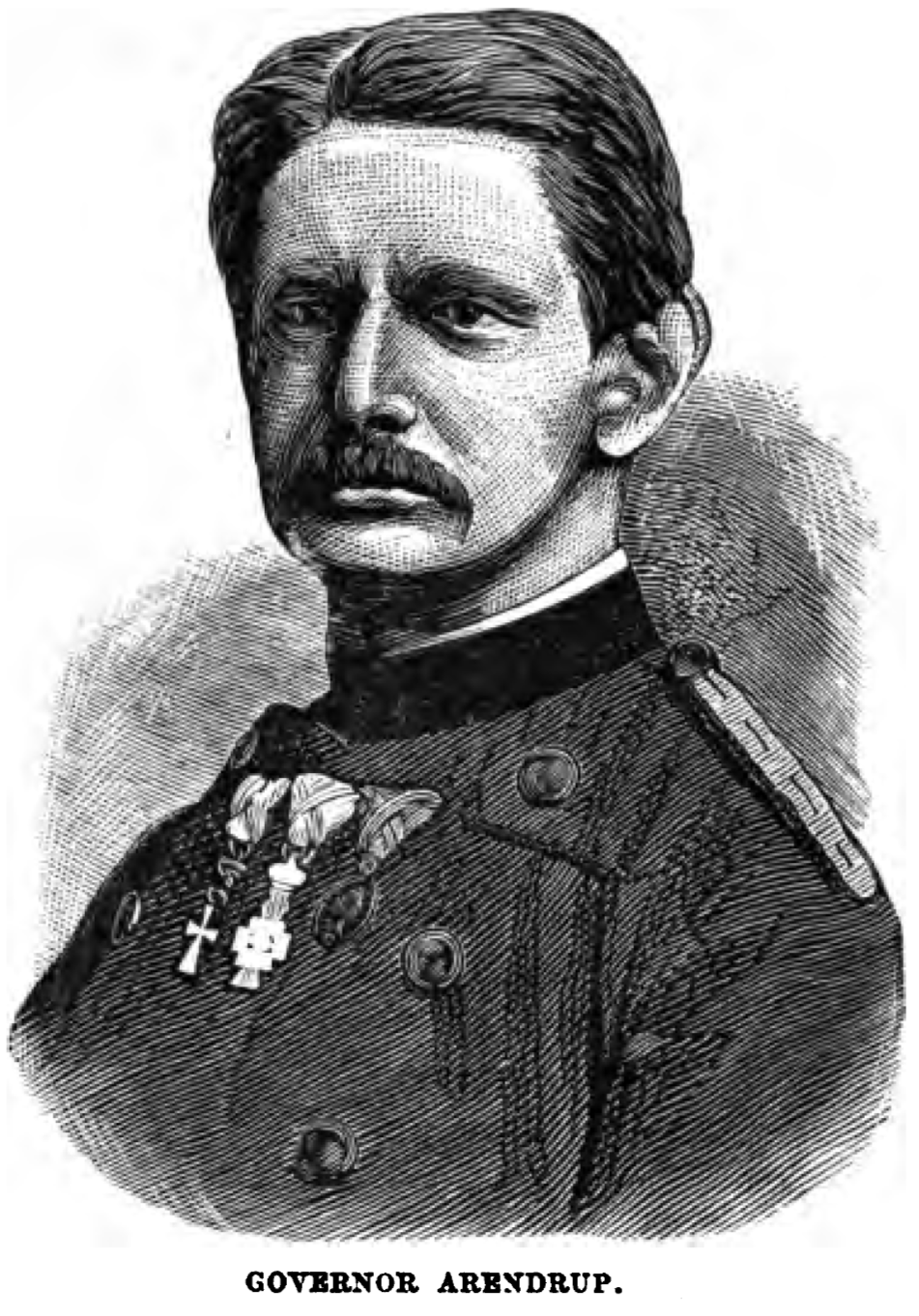 Colonel Christian Henrik Arendrup, during his time as a Governor of the Danish West Indies, from 1881 to 1893, circa 1888